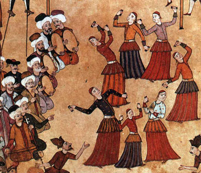 The Surname-i Vehbi is an illustrated account of the circumcision ceremony of Sultan Ahmed III's three sons. The festival took place in 1720 and lasted for fifteen days and nights. Its opulence and splendor were documented in the Surname, a book commissioned for the occasion. It is named after its author, the court poet Seyyd Hüseyin Vehbi. The book is illustrated with 137 miniatures by Abdülcelil Levni Çelebi, the court painter, and his apprentices.